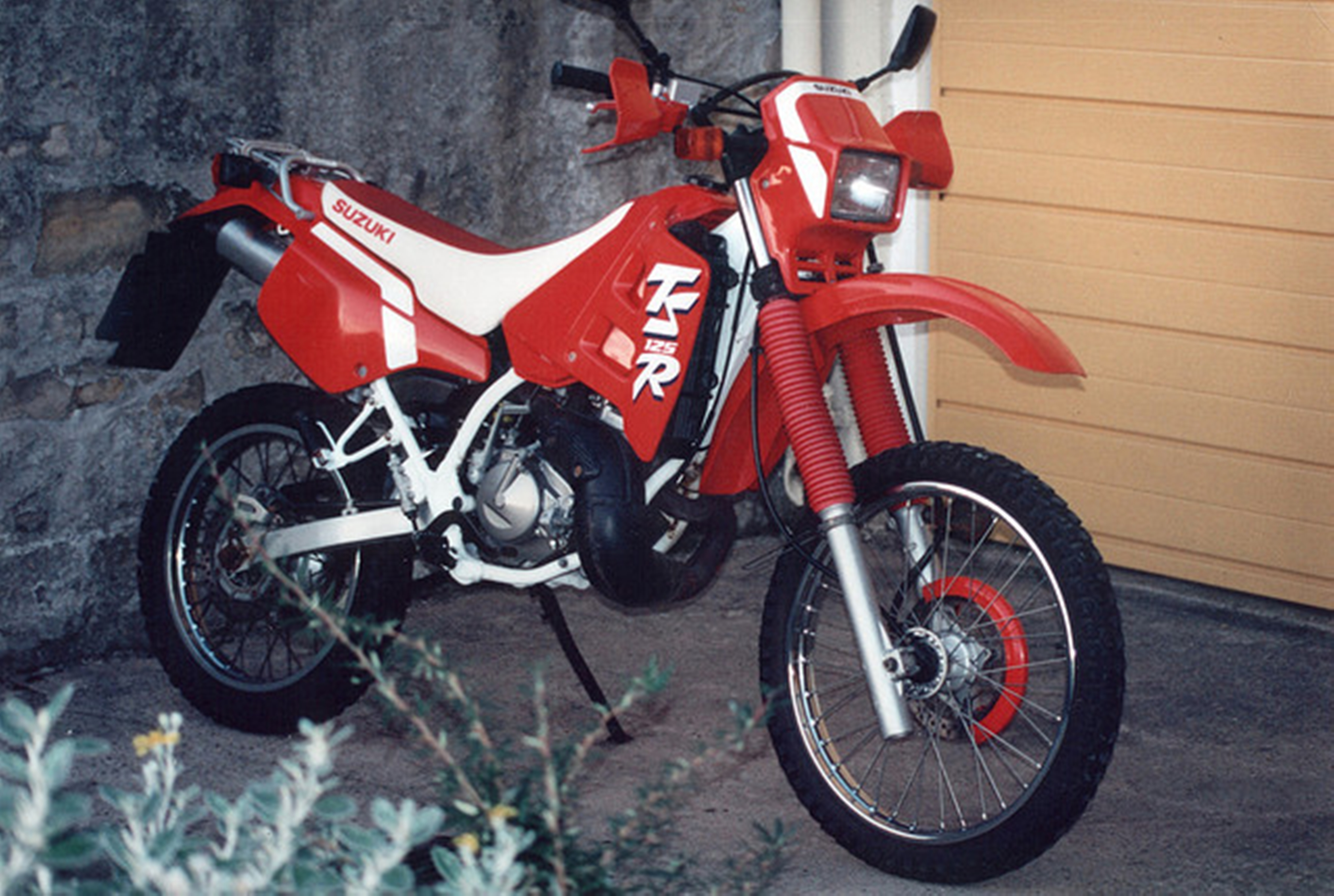 1991 Suzuki TS 125 R